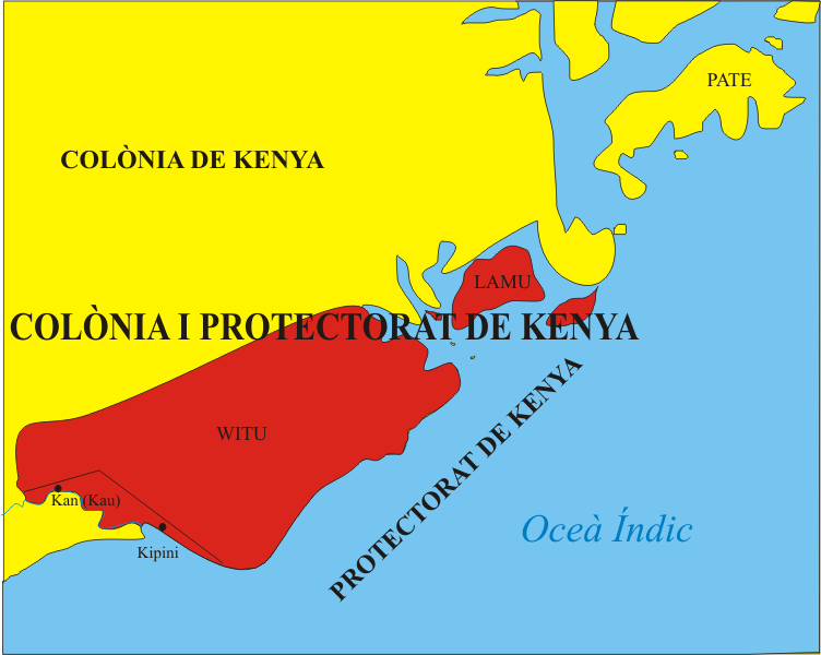 Colony and protectorate of Kenya